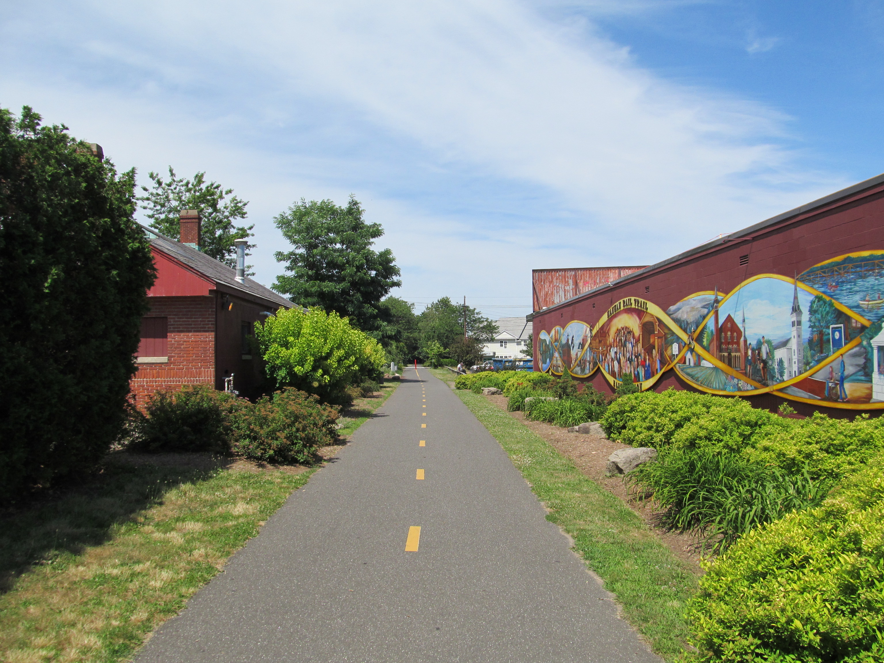 Manhan Rail Trail, Easthampton, Massachusetts. The former Easthampton station is at left.